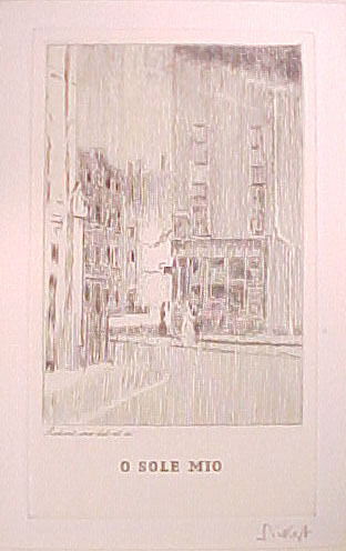 Print; Prints